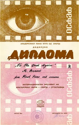 Diploma and first prize for Iranian director Mahdi Bemani Naeini's film, To the Dust Again, from the 1990 Skopje Film Festival in Yugoslavia